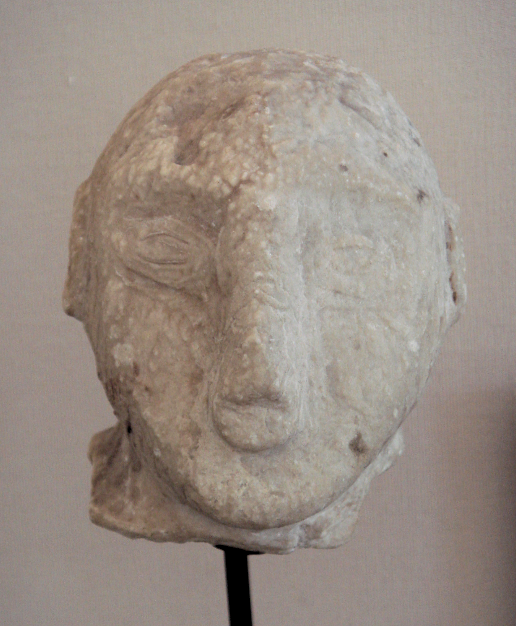 Indus head statuette in red limestone imported to Susa in 2600-1700 BCE disovered in the Tel of the Acropolis at Susa LOUVRE Sb80